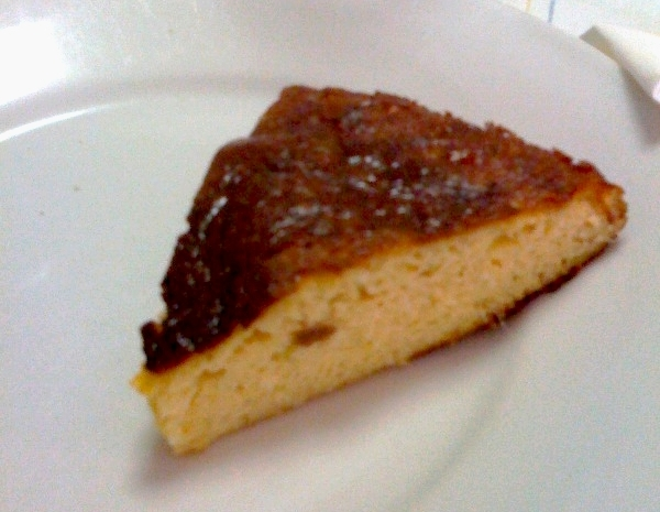 Rafanata, traditional recipe in the province of Matera, Basilicata